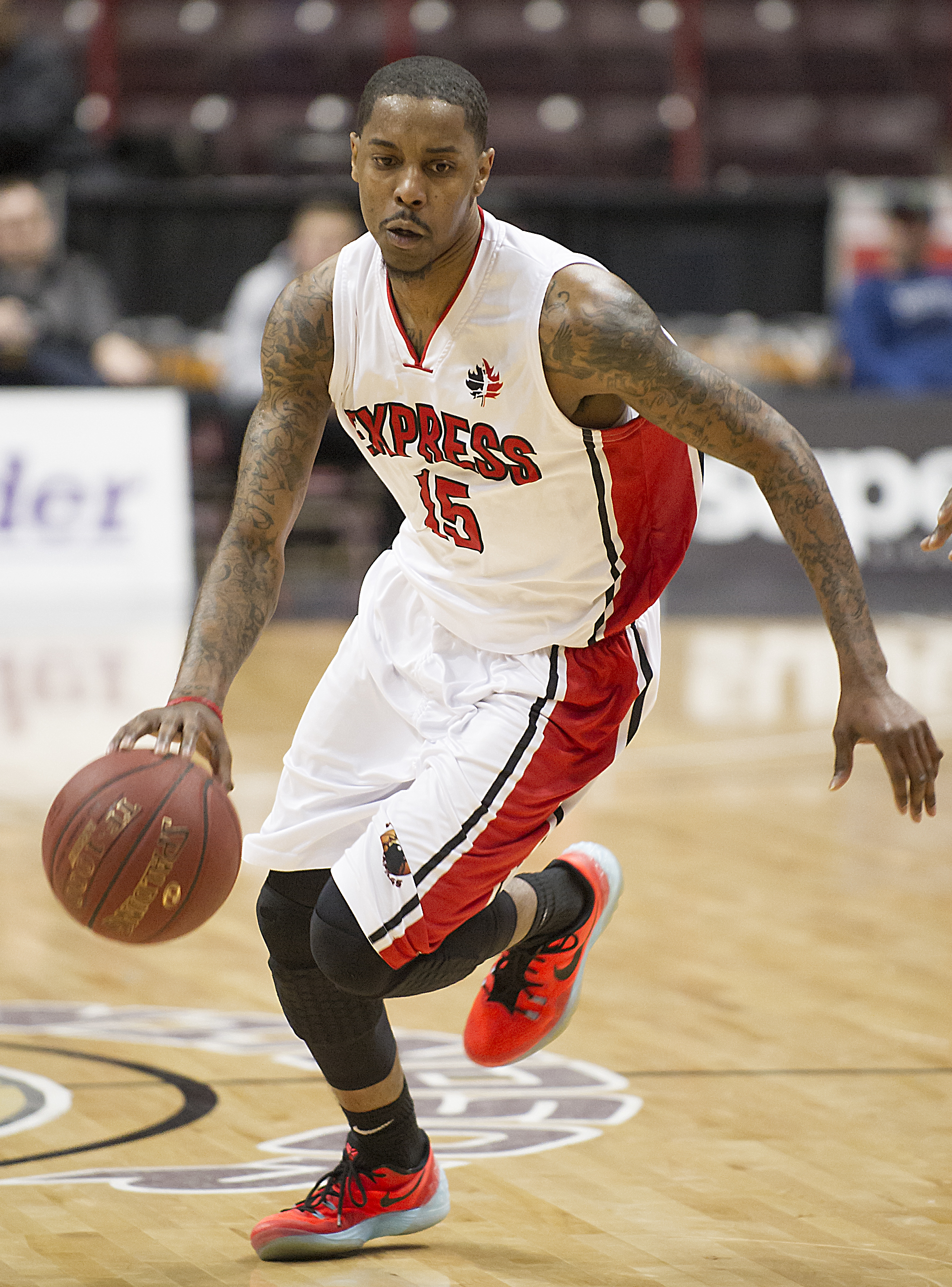 FEB-26-16 Windsor Express vs. Orangeville A's WFCU Center